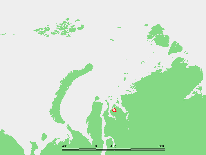 Kara Sea